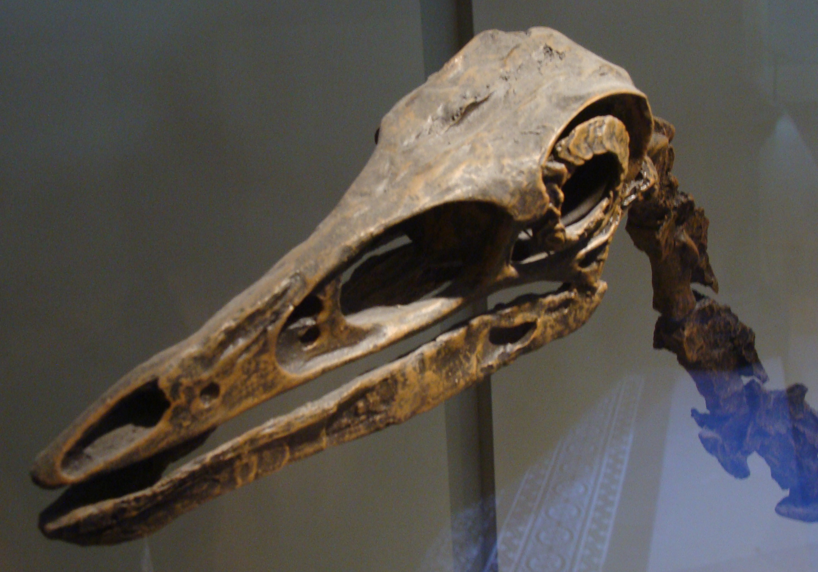 Struthiomimus altus in the Royal Belgian Institute of Natural Sciences.